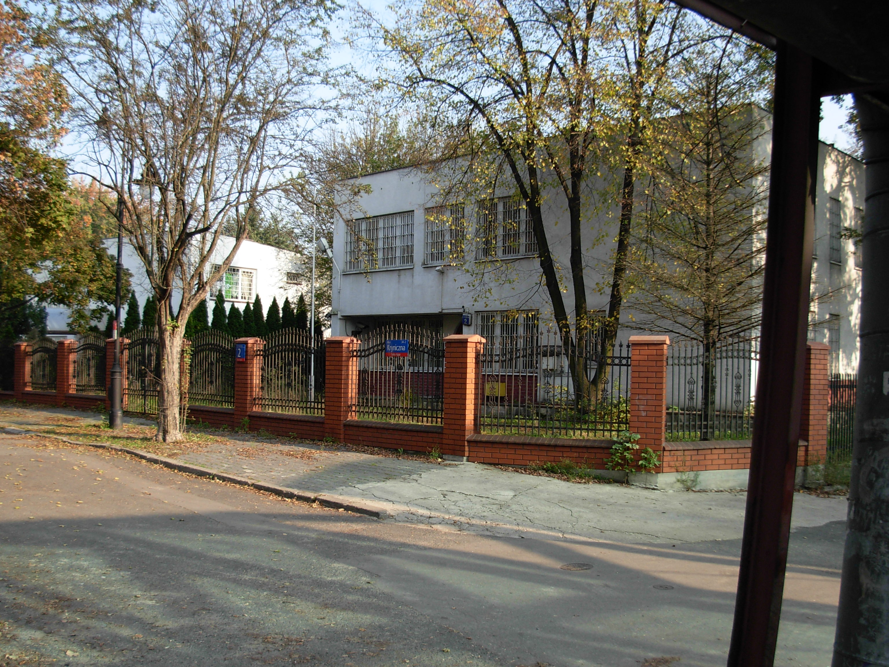 Libyan People's Bureau/Embassy of Libya in Warsaw